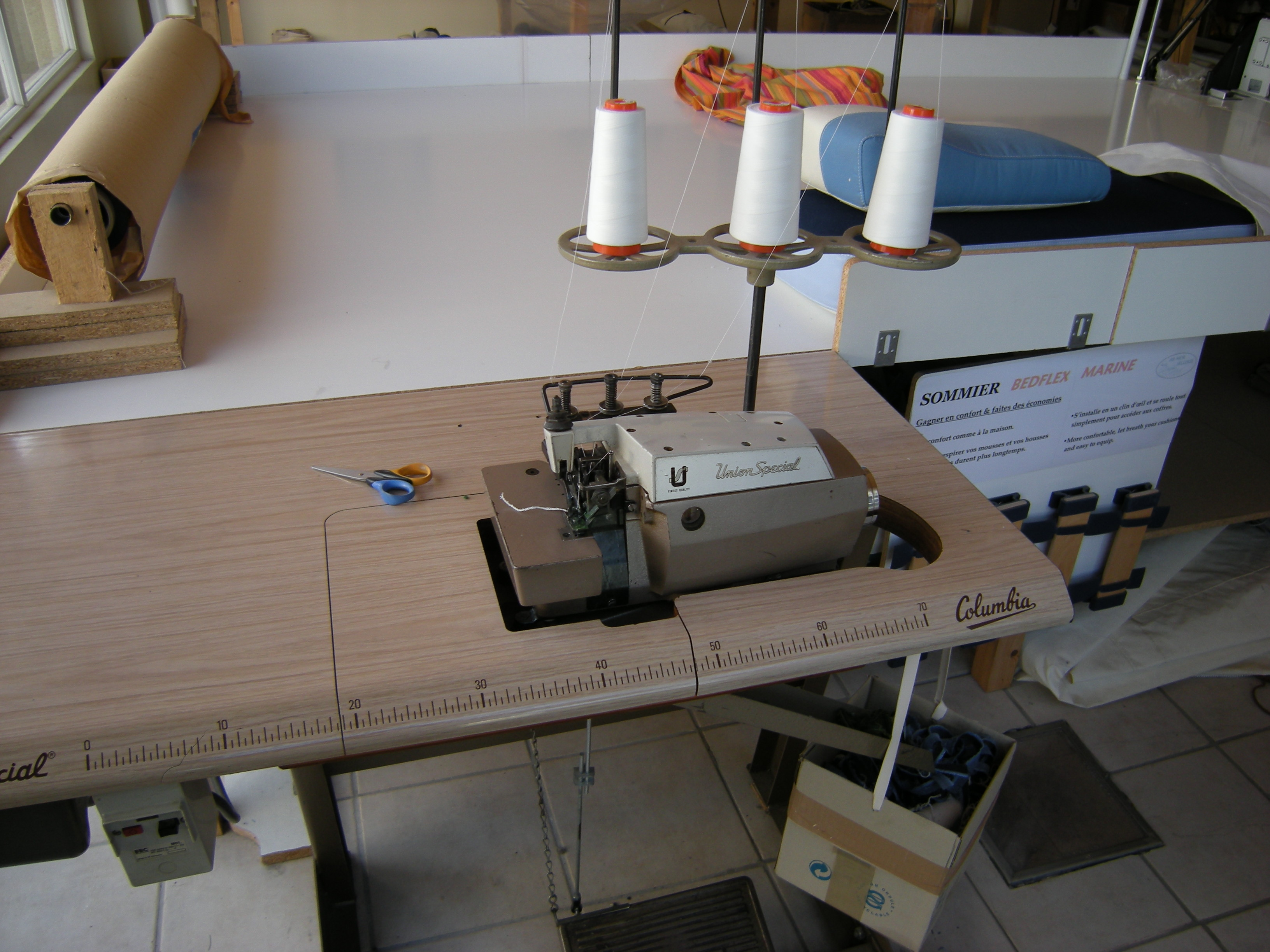 Overlock 3 thread sewing machine